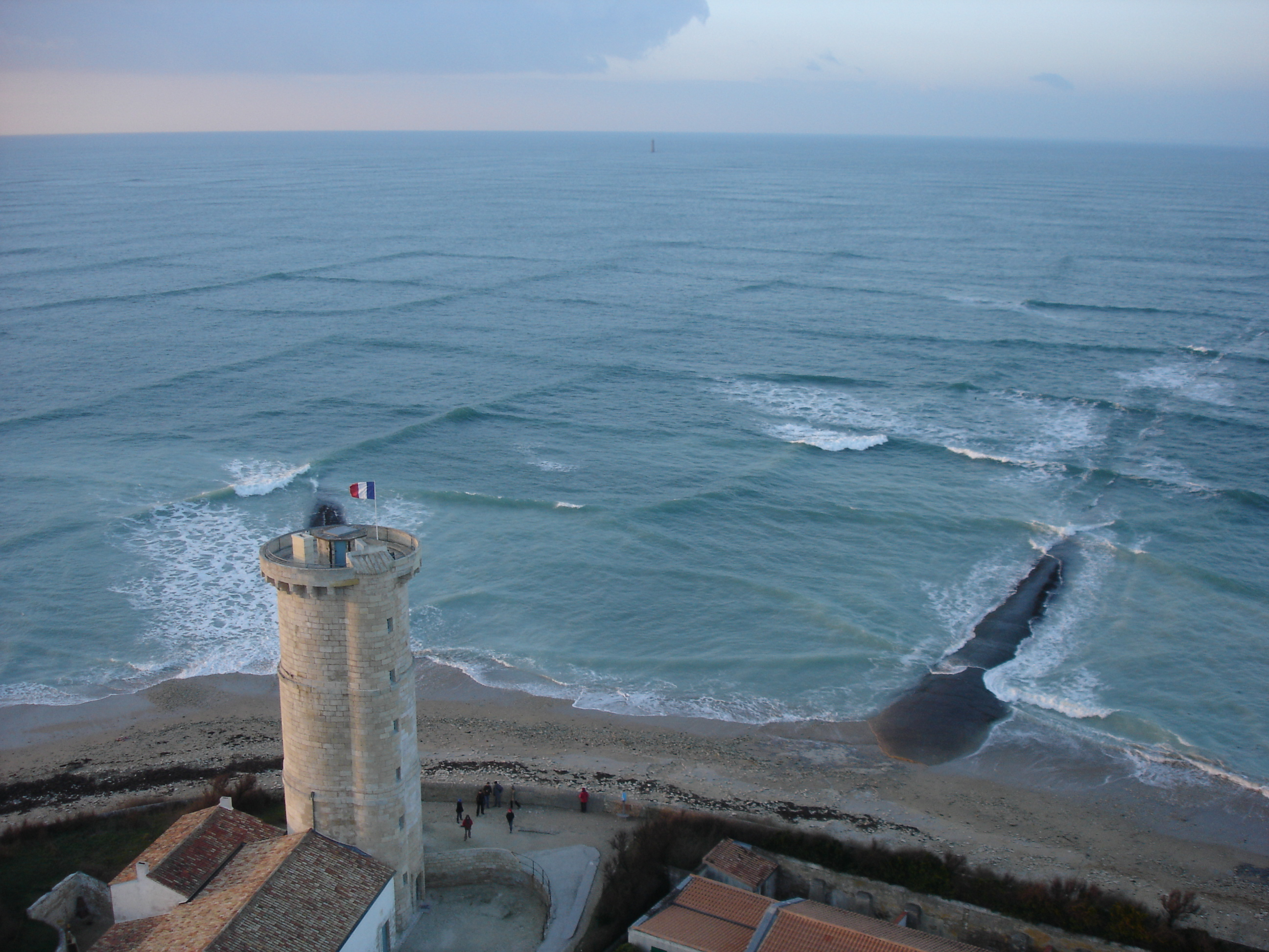 Cross swell. Photo taken from Phares des Baleines (Lighthouse of the Whales) on Île de Ré.